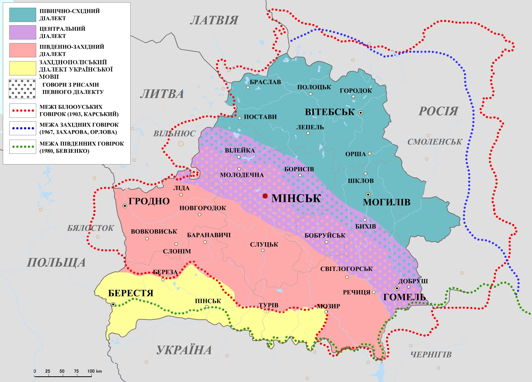 Dialects of Belorussian language Dialects North-Eastern Middle South-Western West Palyesian dialect of Ukrainian language Lines Areal of Belarusian language (1903, Karski) Eastern border of western group of Russian dialects (1967, Zaharova, Orlova) Border between Belarusian and Ukrainian (1980, Bevzenk) Беларуская (тарашкевіца): Дыялекты беларускай мовы Дыялекты Паўночна-ўсходні Цэнтральны Паўднёва-заходні Заходне-палеская мова Лініі Мяжа беларускіх гаворак (1903, Карскі) Усходняя мяжа заходняй групы расейскіх гаворак (1967, Захарава, Арлова) Мяжа беларускіх і ўкраінскіх гаворак (1980, Беўзенка)